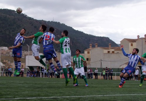 Lorca Deportiva 4